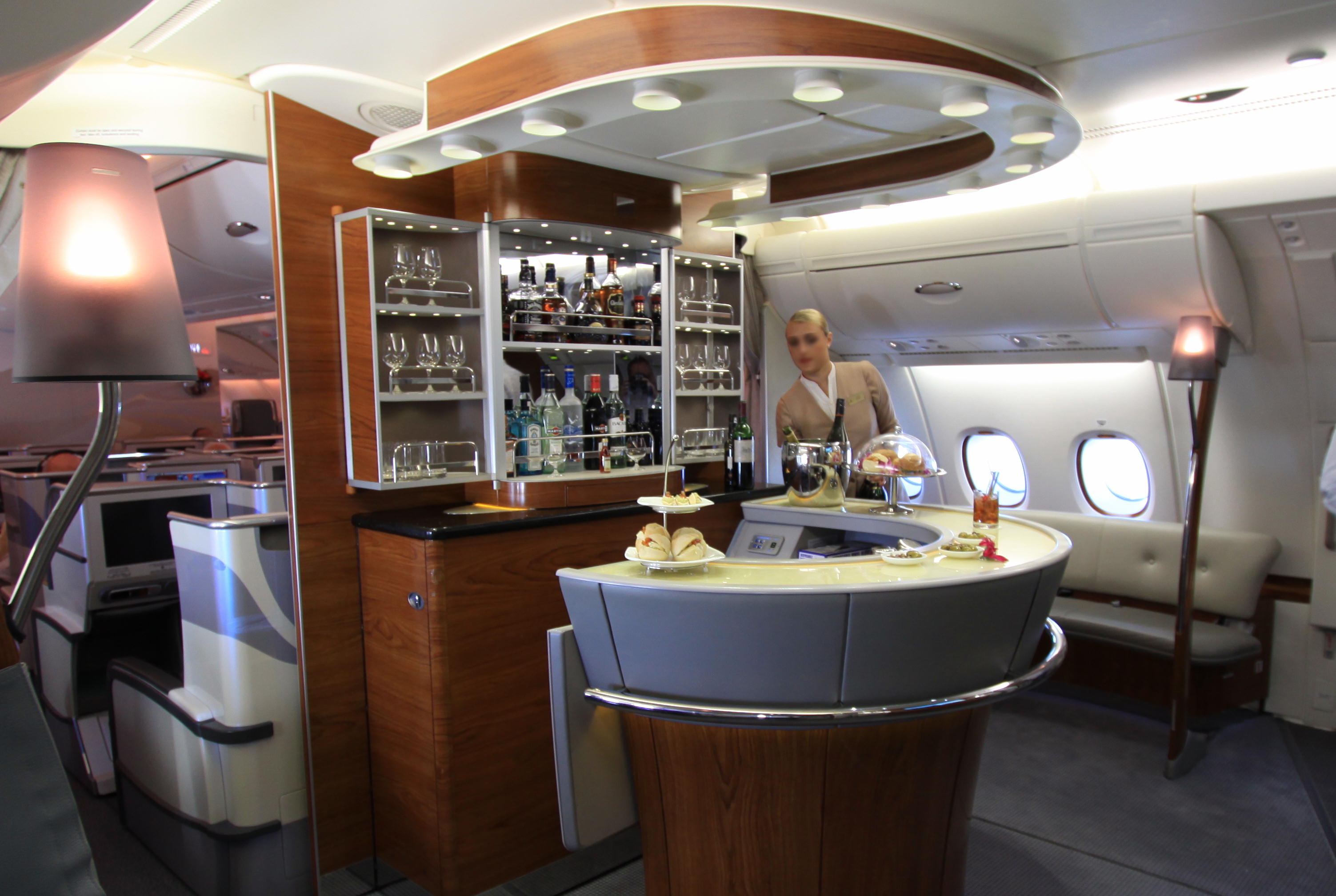 Business Class Bar \ Lounge On An Emirates A380 AKL-SYD